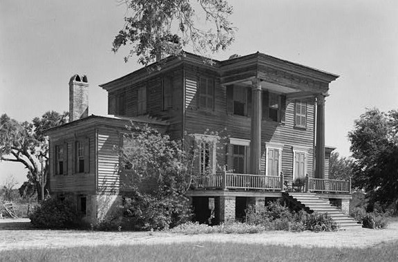 Brookland, Edisto Island (Charleston County, South Carolina) (cropped)